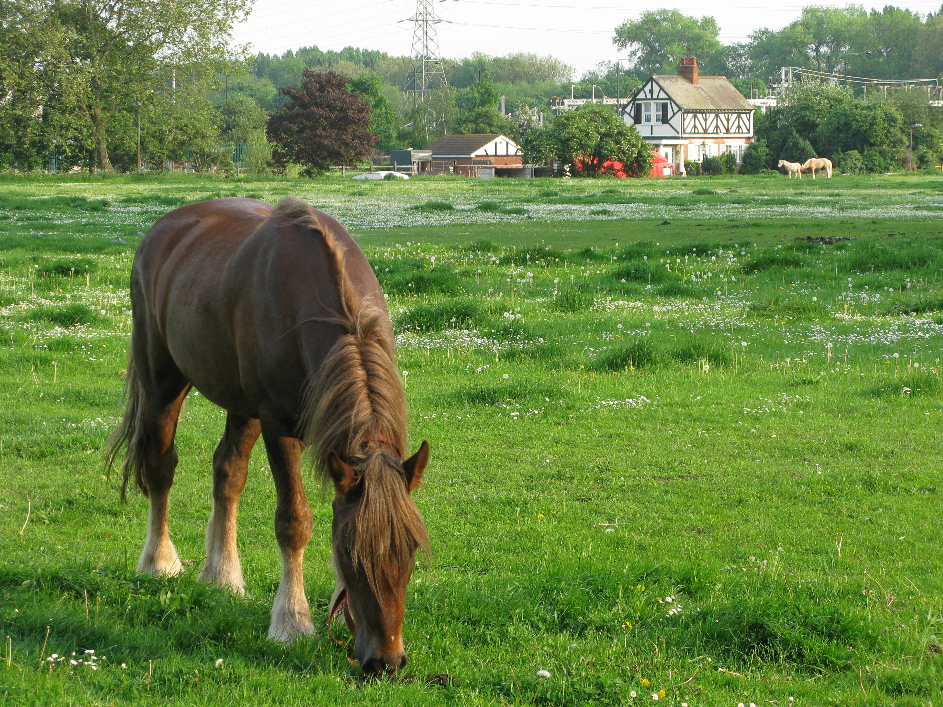 Tethered horse grazing at Leyton Marshes in the London Borough of Waltham Forest.